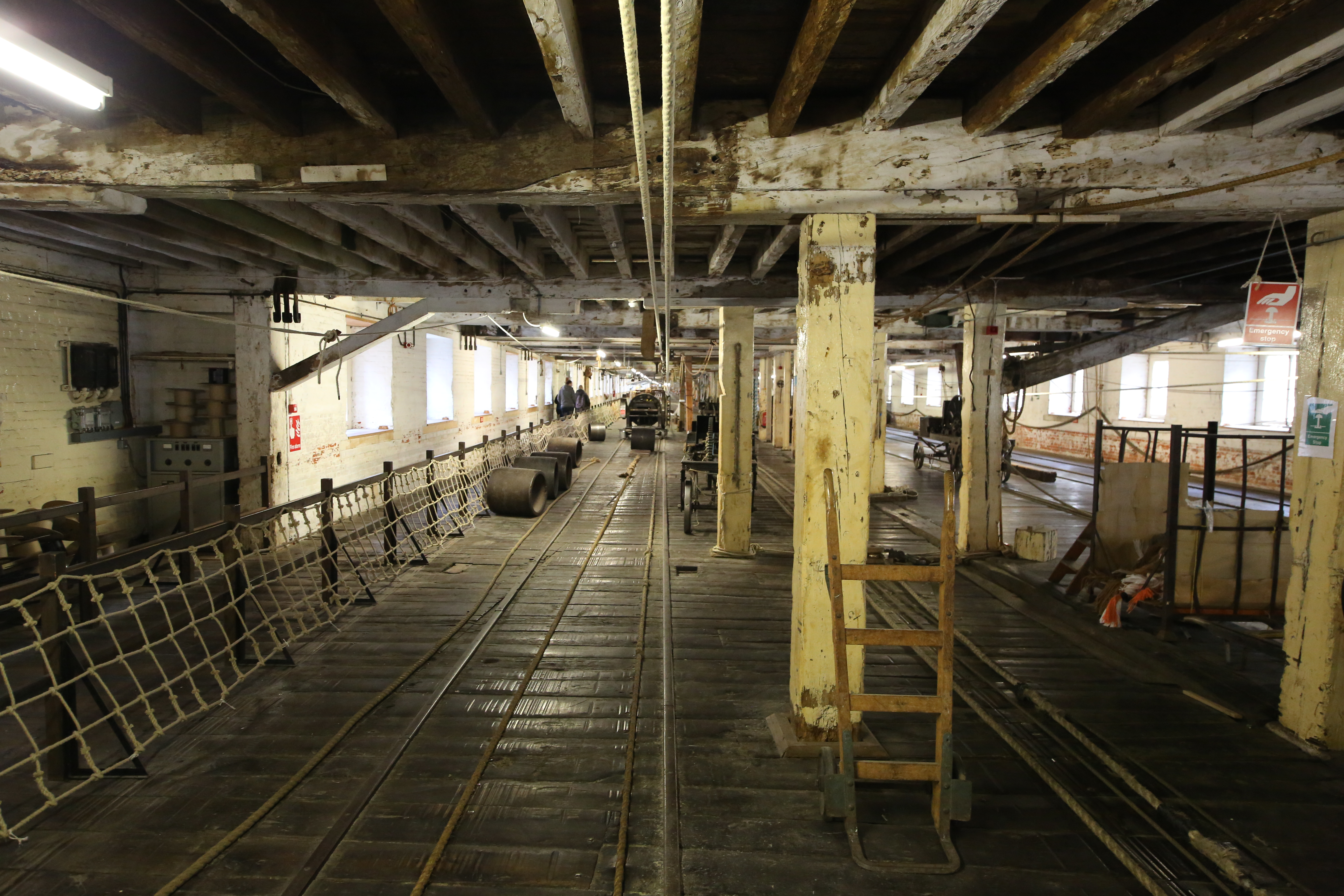 photo of the interior of the Ropery at Chatham Historic Dockyard